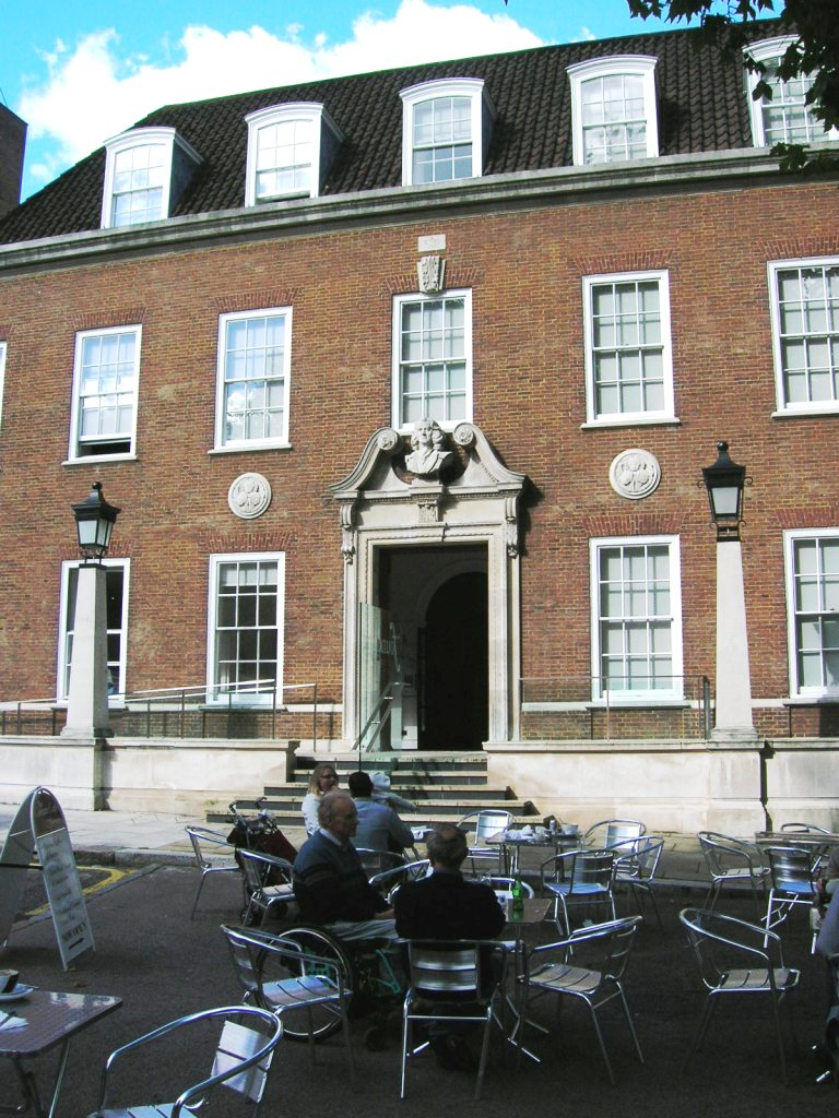 Photo by Pontus rosen